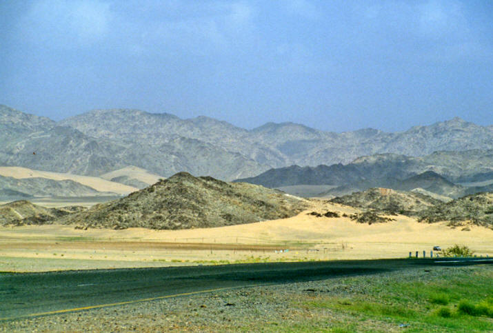 Picture of the landscape surrounding at-Ta'if, a road towards it in the foreground and the mountains surrounding it in the background.